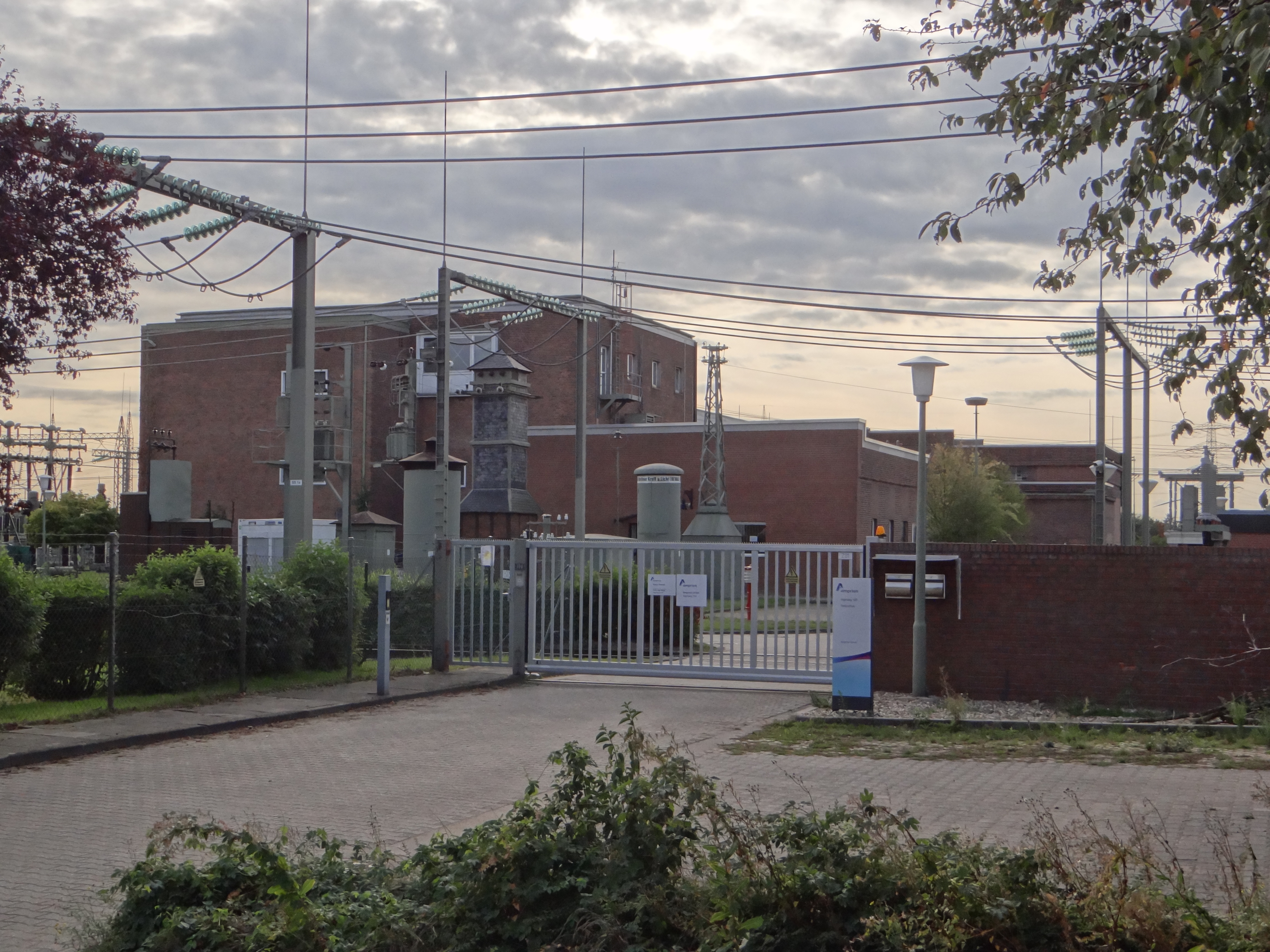 Osterath substation and museum "Elektrothek" in Meerbusch-Osterath, Germany